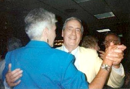 Bill and wife Rosemary ballroom dancing, candid shot taken a few years ago by the author.